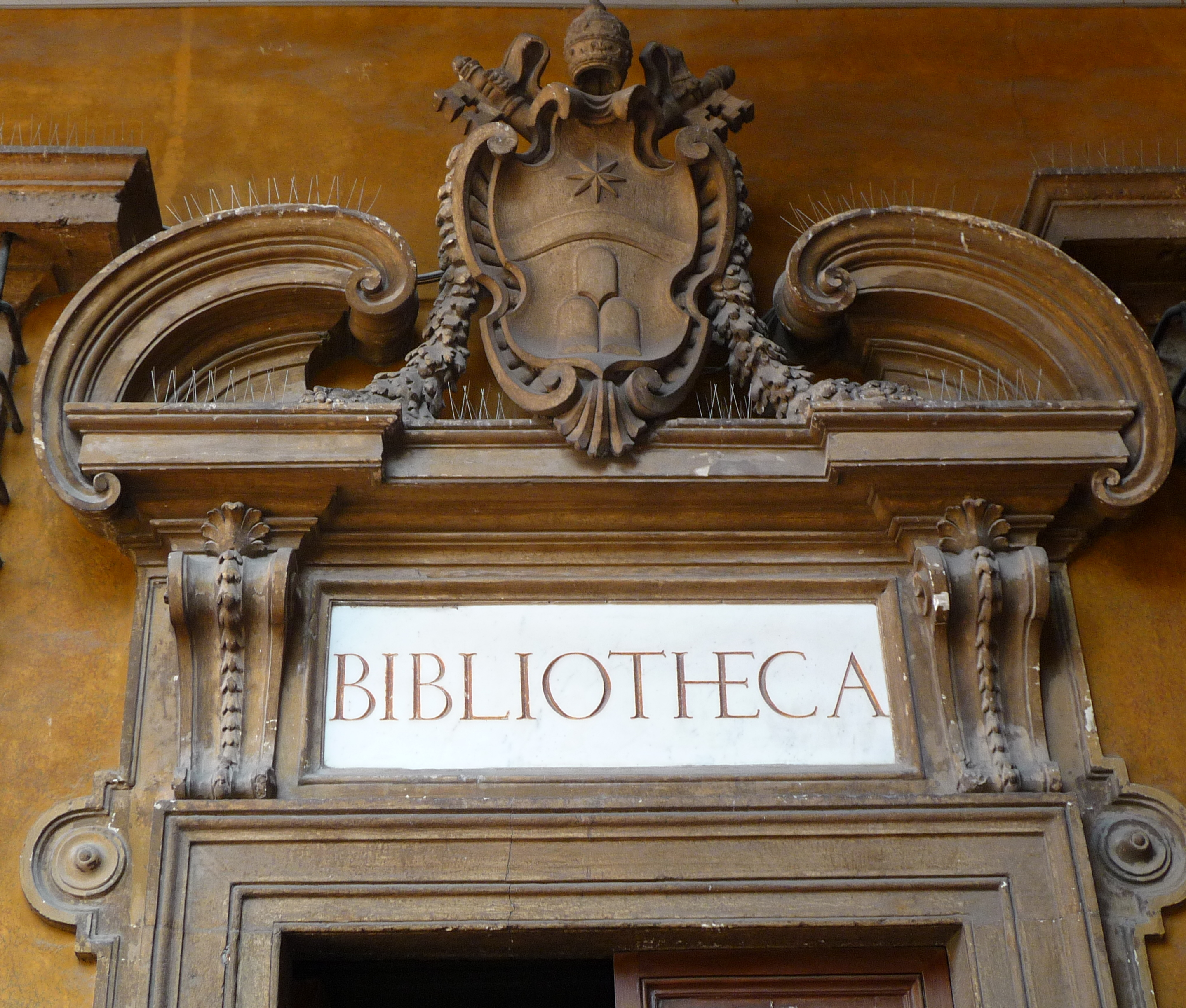 Portal, Biblioteca Lancisiana in Santo Spirito di Sassi in Rome; Coats of arms of Pope Clemens XI. (1700-1712)